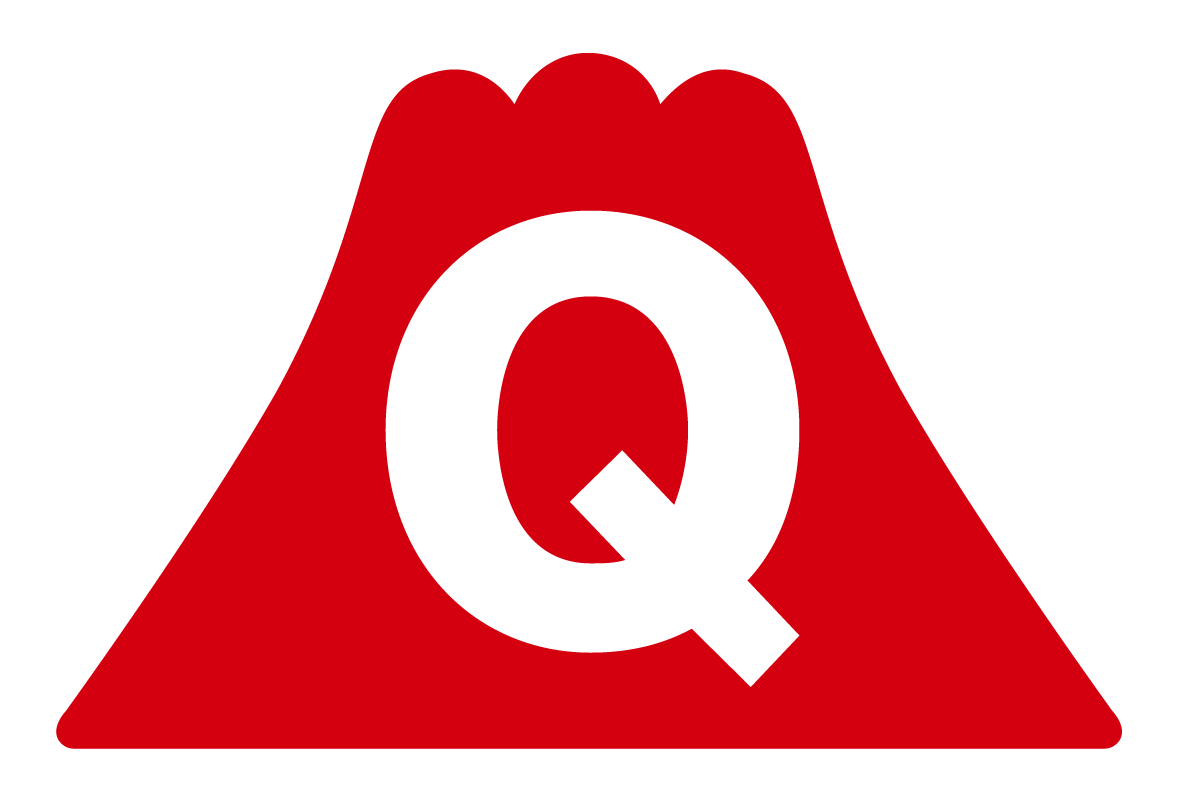 Fuji Kyuko Logo